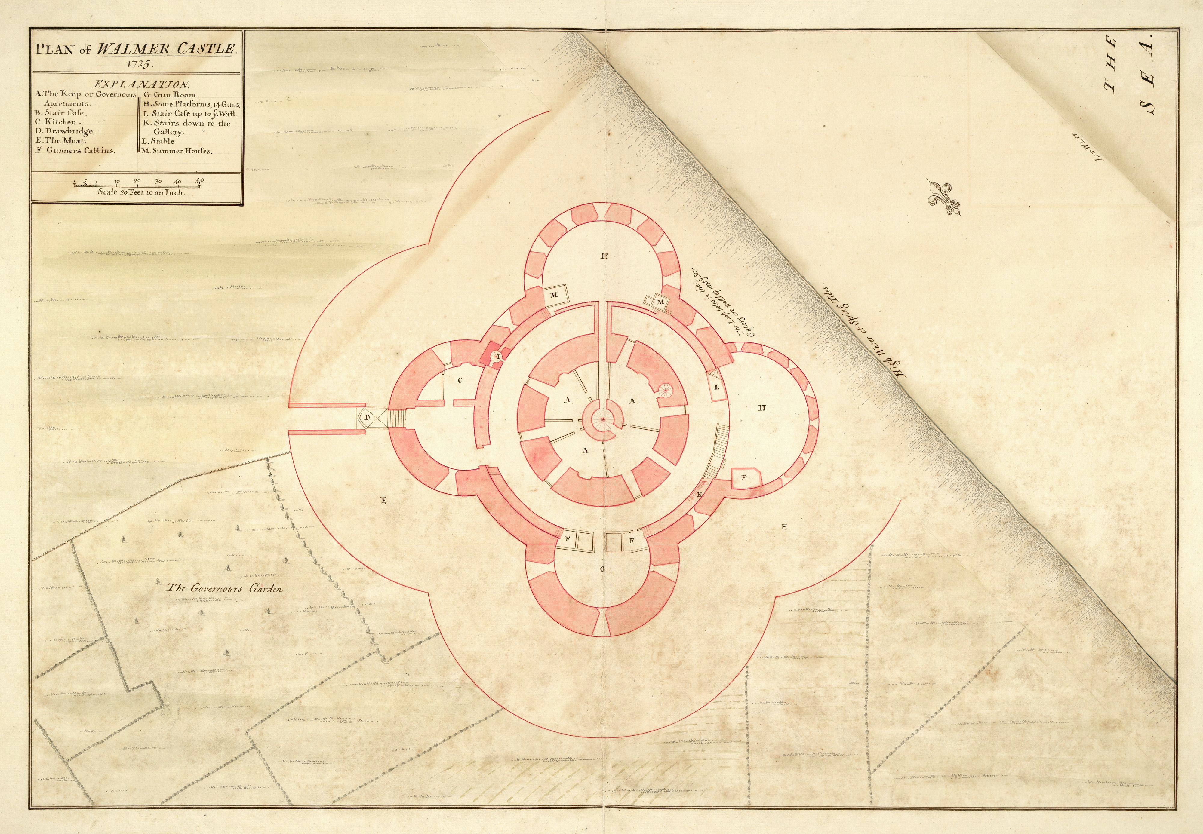 1725 map of Walmer Castle, Kent - shortly before rebuilding into the Duke of Kent apartments.